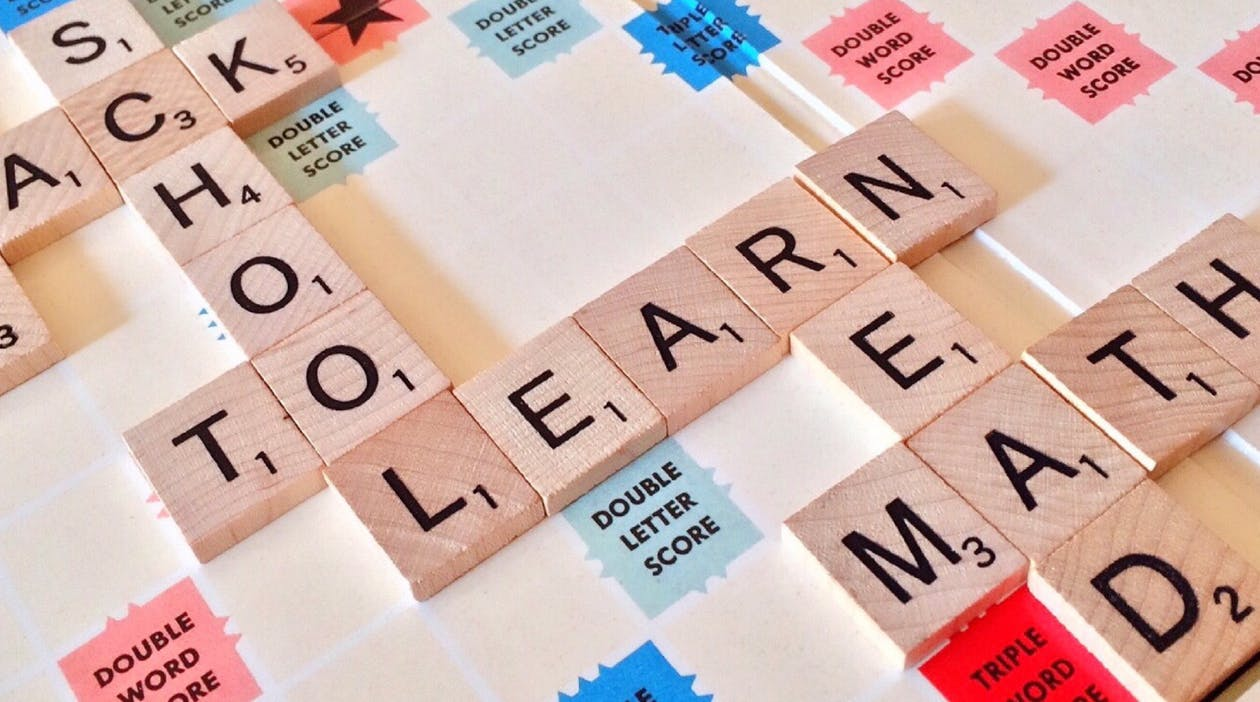 Learning Blocks Image.